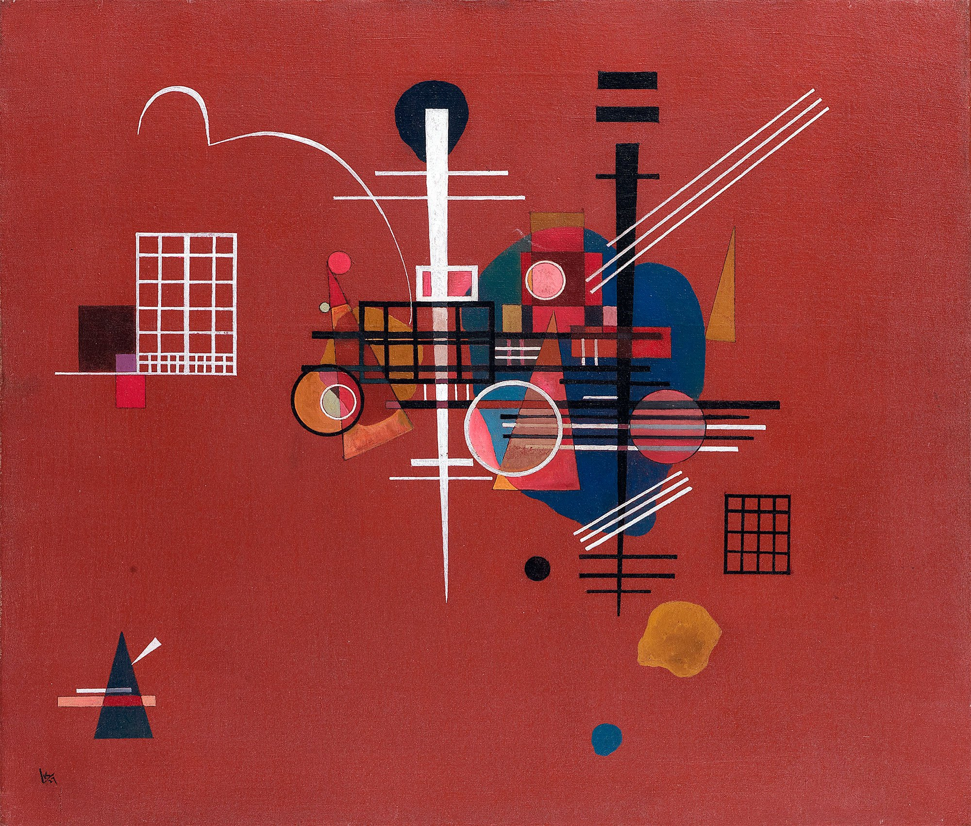 Dumpfes Rot, No.400 by Wassily Kandinsky, 1927, oil on canvas, 66 x 76cm (26 x 30in.)